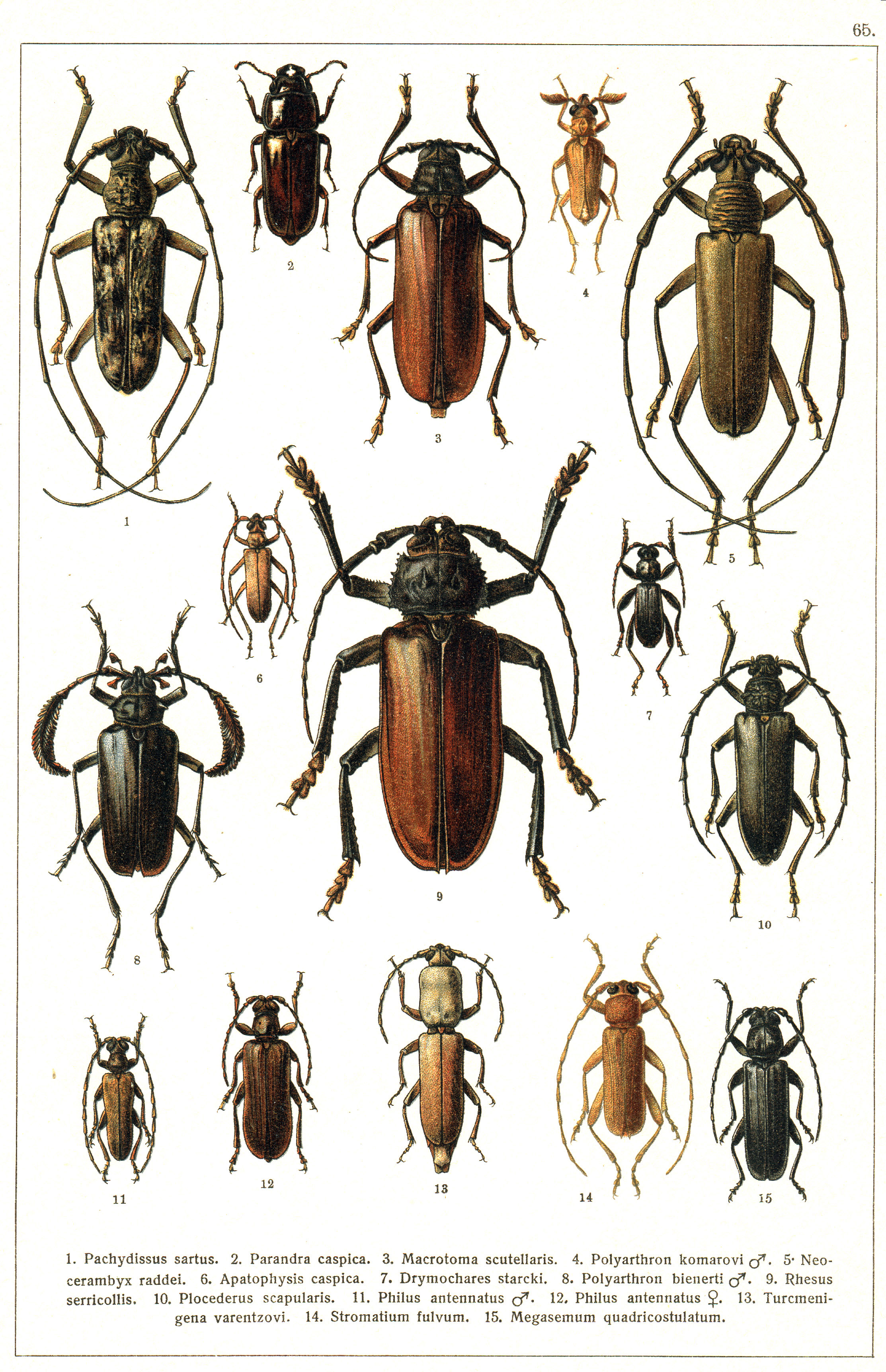 Illustration of monographs Georgiy Jacobson "Beetles Russia and Western Europe". Publisher: Devriena company. The first issue was released in 1905, the last - in 1915. Illustrations were mostly taken from the publication CG Calwers Kaeferbuch. Part of illustrations drawn O. Somina